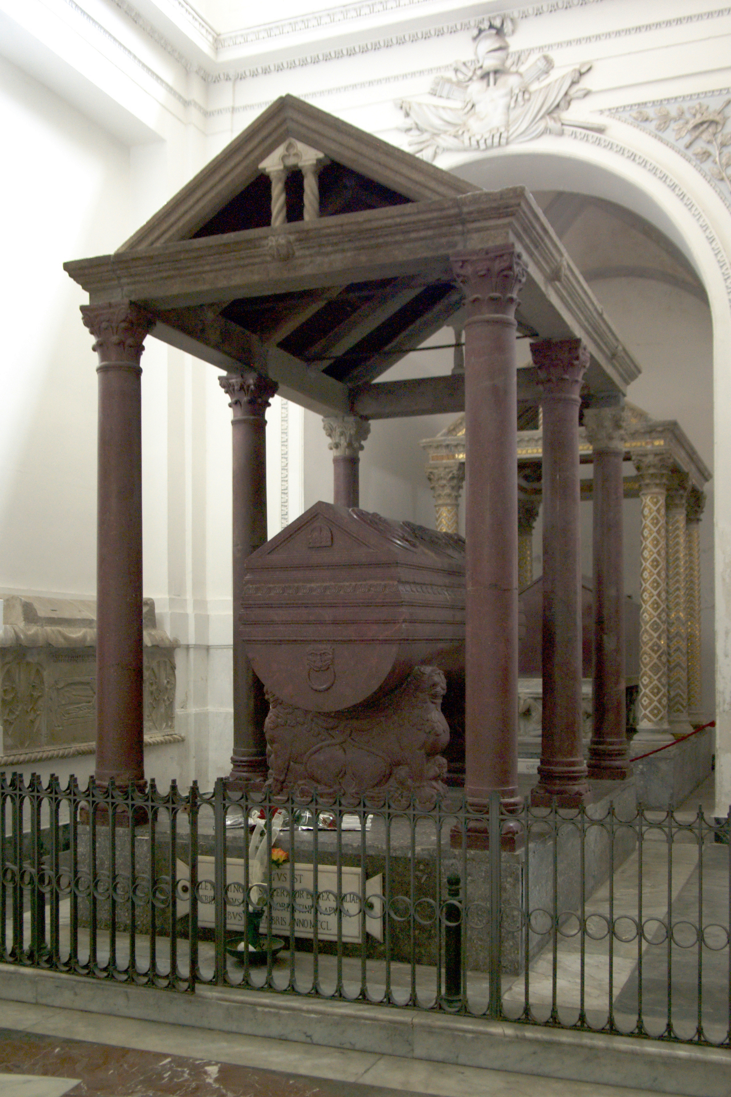 Italy, Sicily, Palermo, cathedral